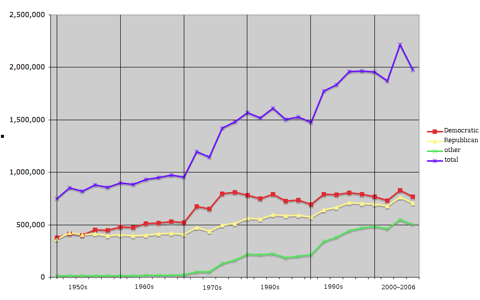 Voter registration totals in general elections from 1950-2006. Chart created by me, using data from